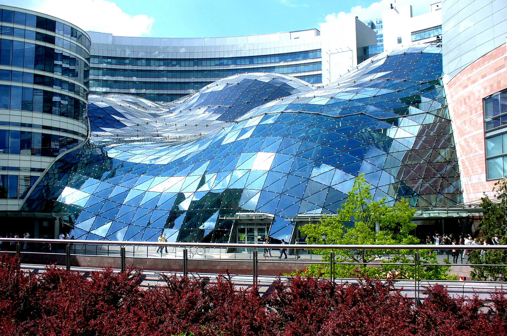 Golden Terraces shopping centre in Warsaw